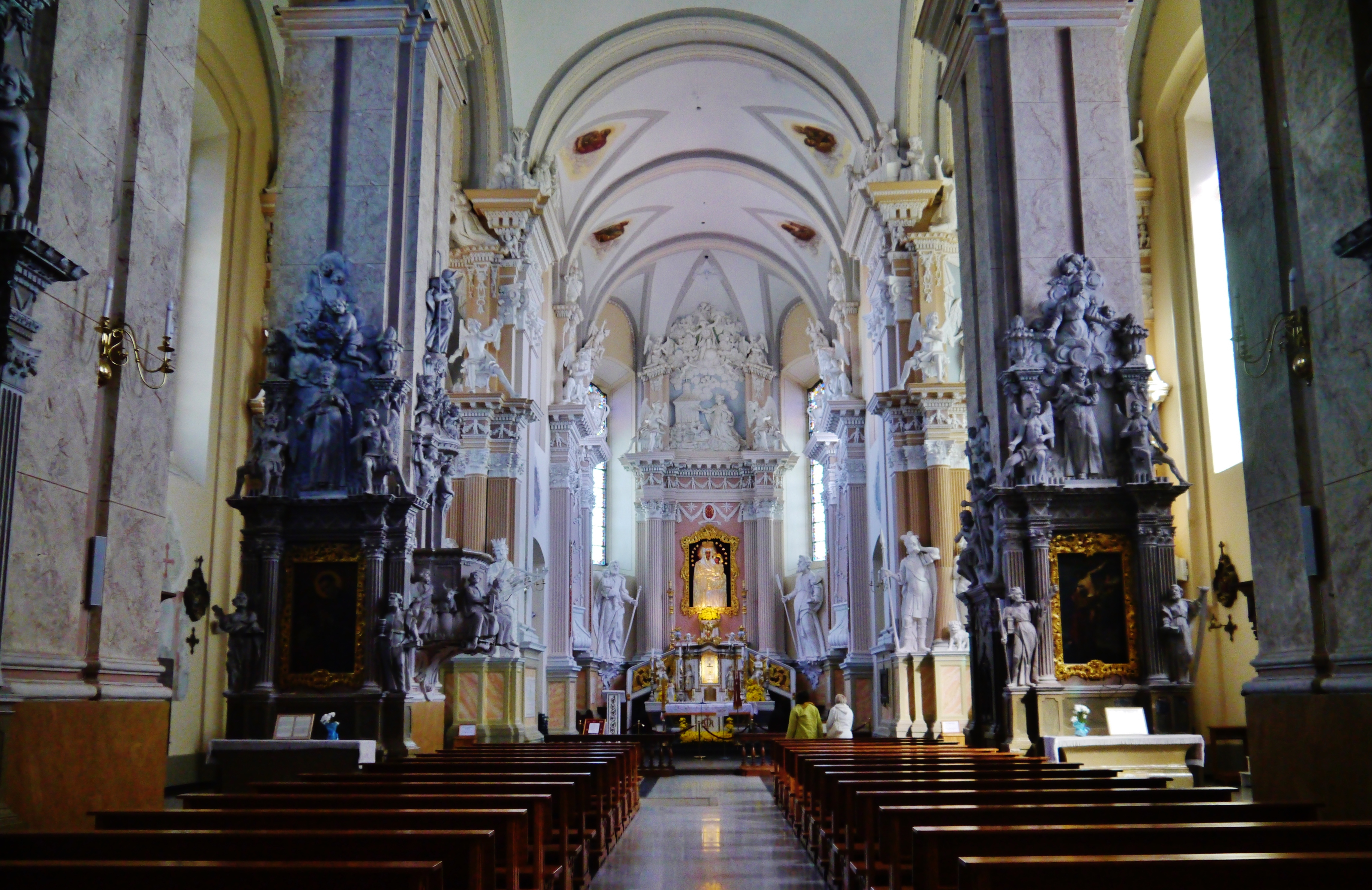 Nave of the Basilica of Our Lady Nativity, Siluva, Lithuania